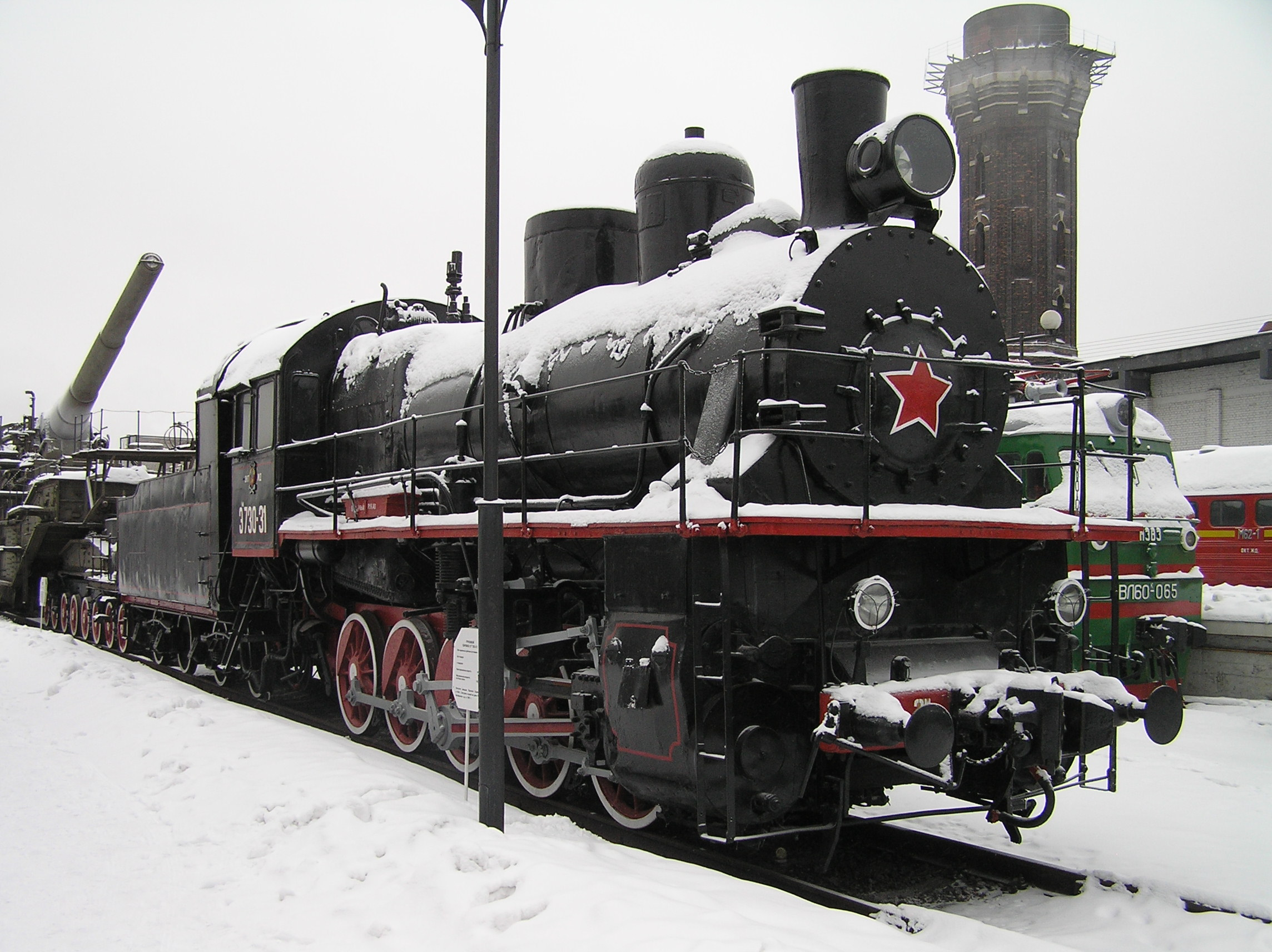 Em 730 31